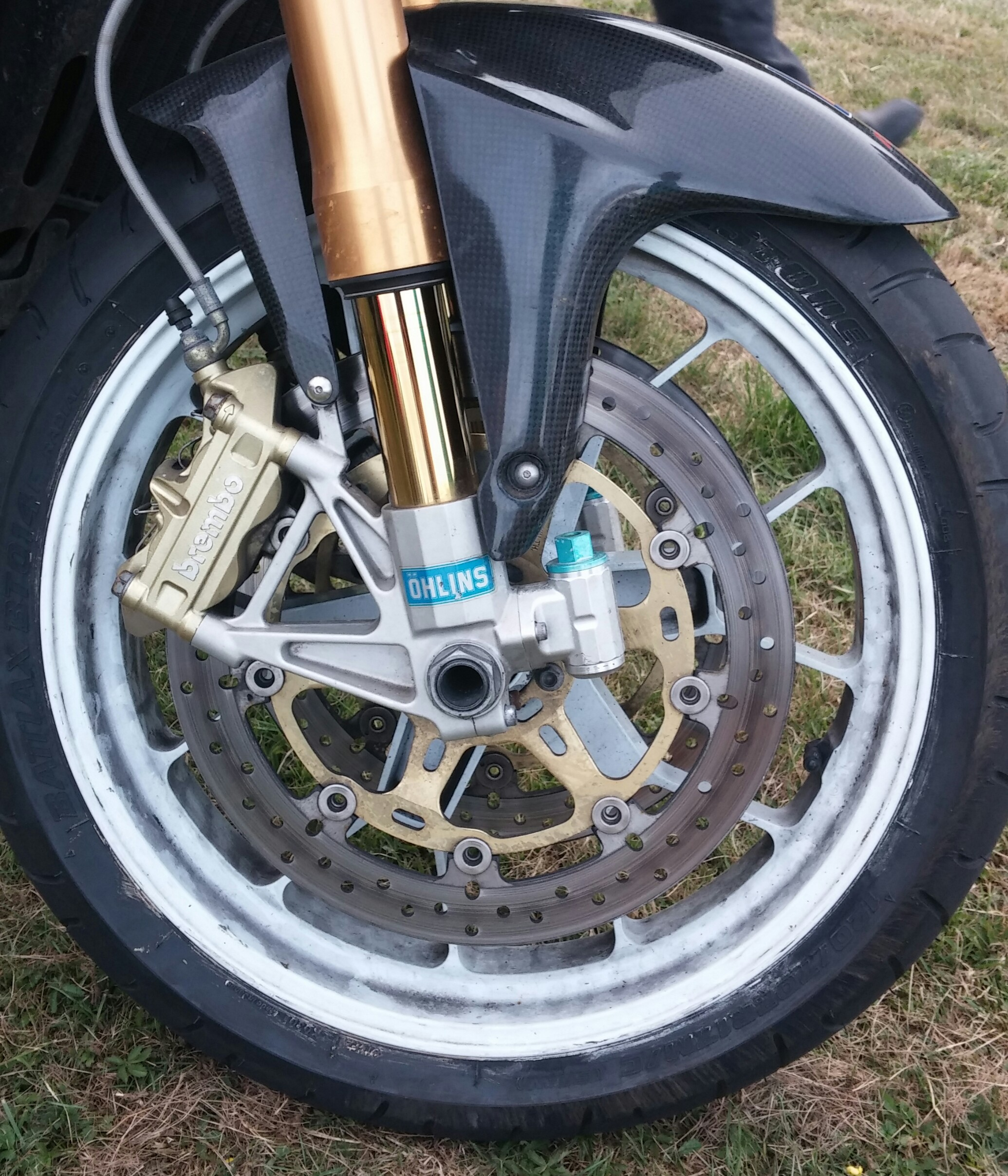 Front wheel from an Aprilia Tuono R